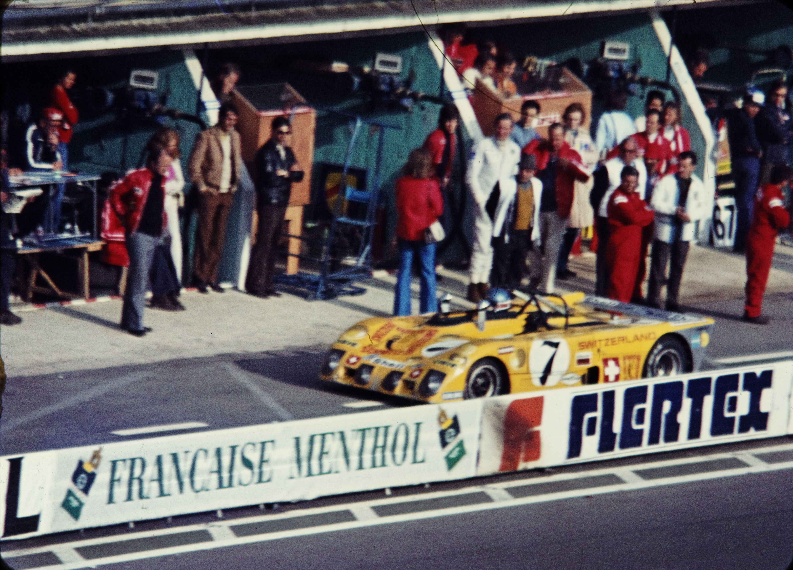 The No. 7 Lola T280 at the 24 Hours of Le Mans in 1972. Driven by Hughes de Fierlant, Jorge de Bagration and Mário de Araújo Cabral